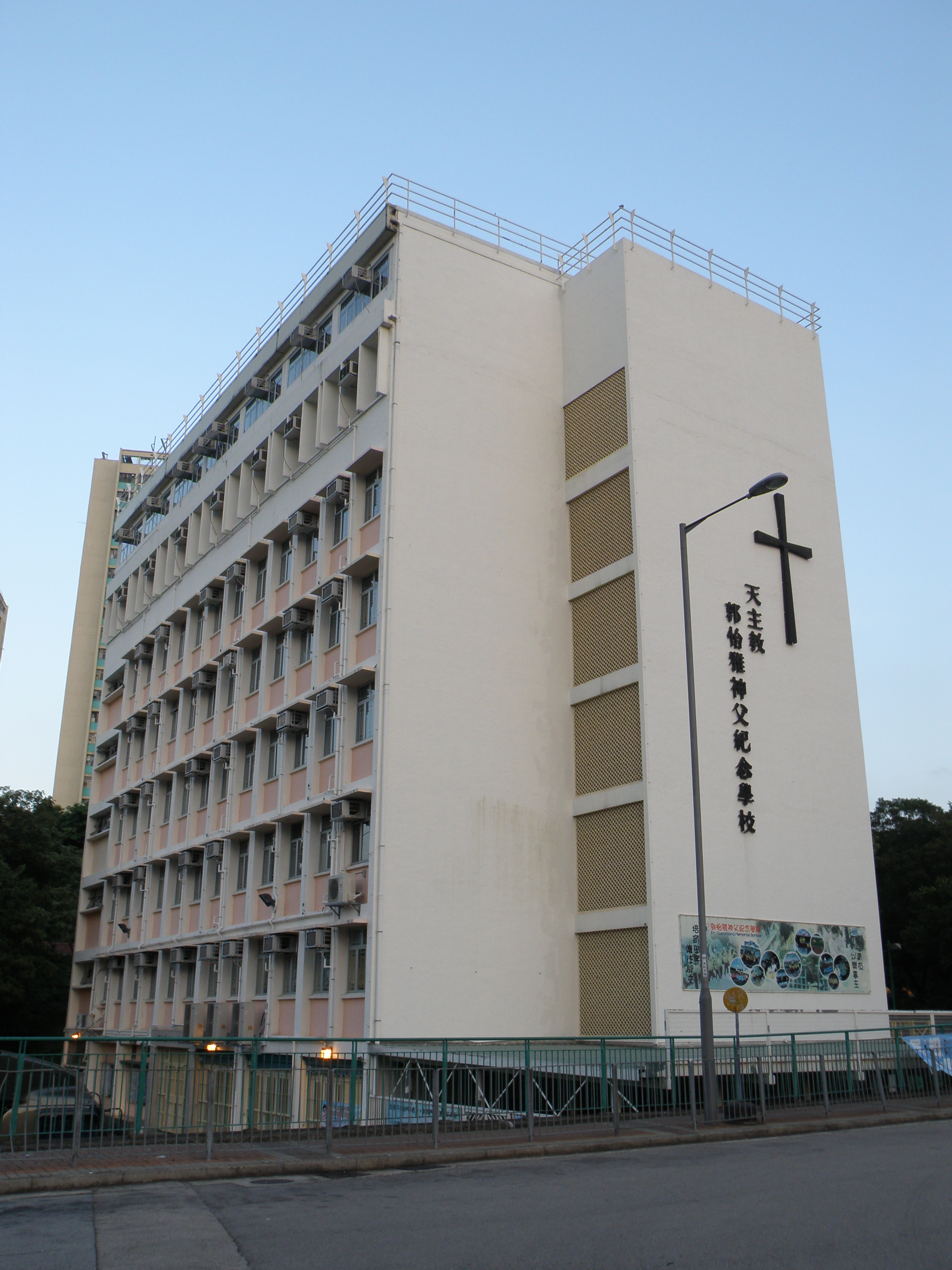 Fr. Cucchiara Memorial School in Tsing Yi, Hong Kong.